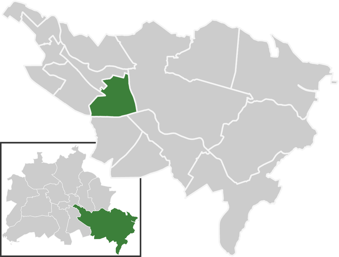 Localitie Adlershof in borough Treptow-Köpenick of Berlin.